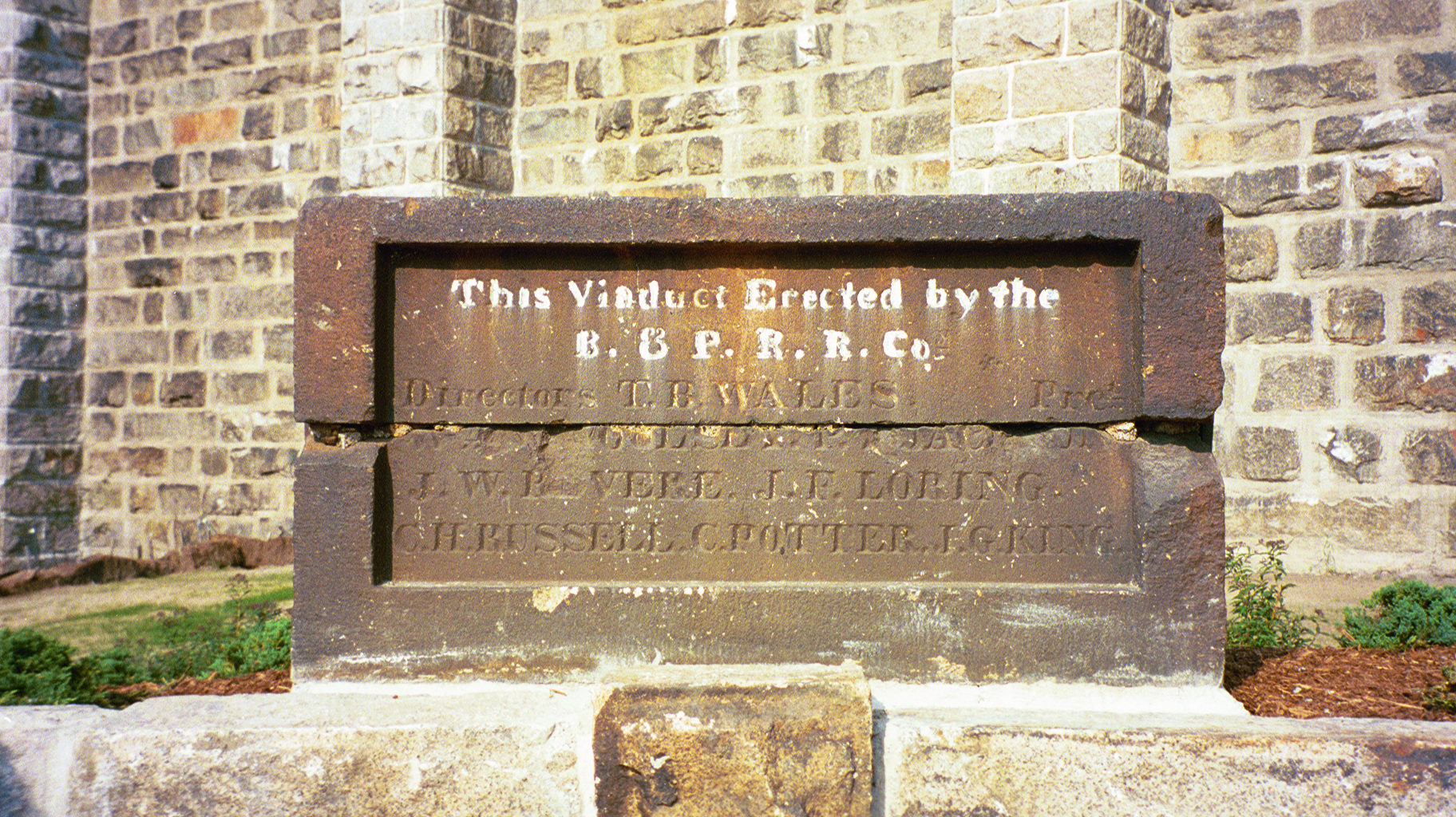 == Inscription == Canton Viaduct cornerstone (front) reads: This Viaduct Erected by the B. & P. R. R. Co. Directors T. B. WALES. Pre. W. W. WOOLSEY. P. T. JACKSON. J. W. REVERE. J. F. LORING. C. H. RUSSELL. C. POTTER. J. G. KING.